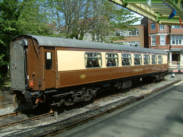 Used on special occasions on the Swanage Railways is this superbly restored Pullman Car No 347